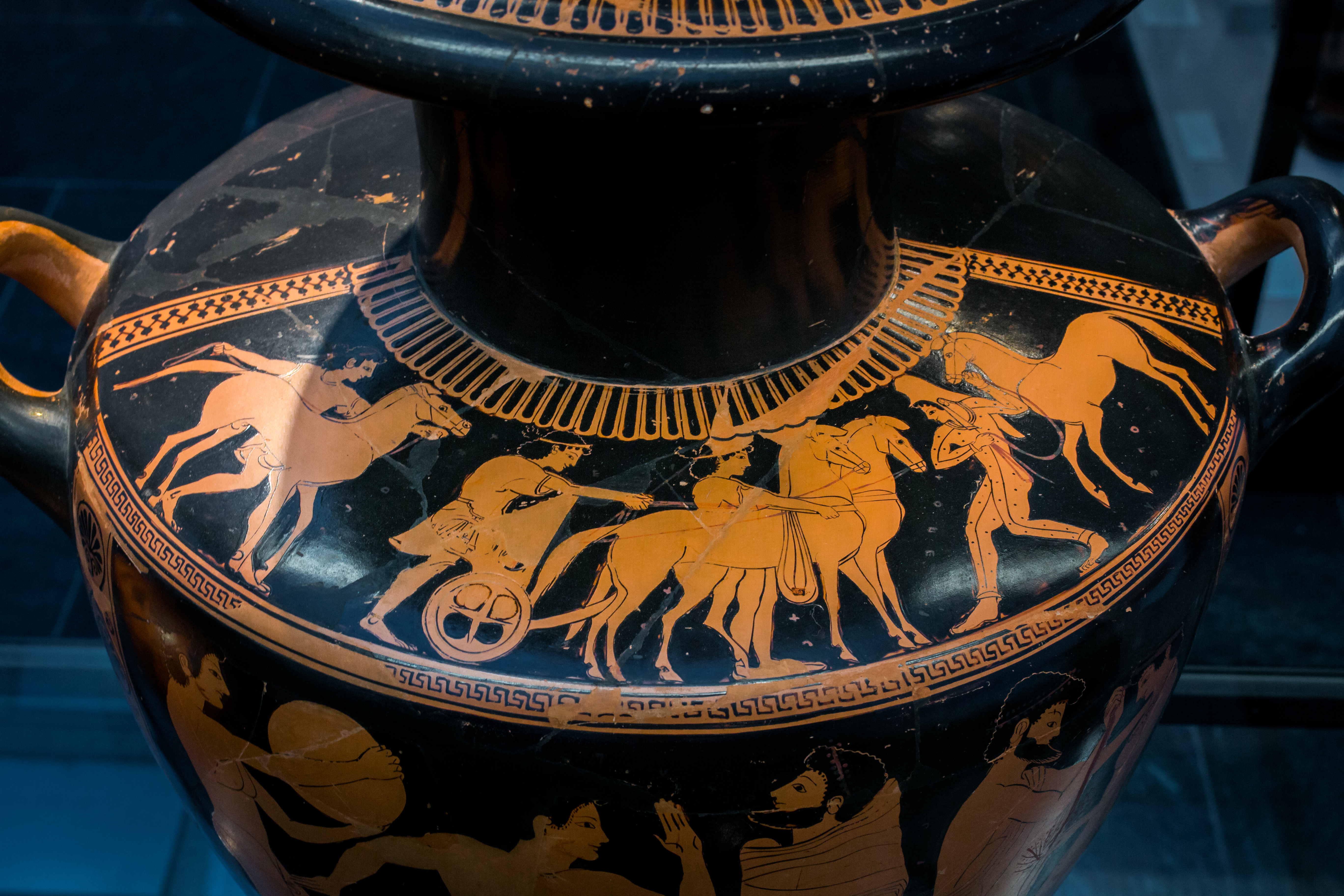 object type / vase shape: attic red figure hydria - description shoulder: 4 Amazons harnessing a chariot (quadriga), one wearing the typical Scythian / Phrygian dress - belly: young discus thrower, sprinter, bearded trainer in mantle; bearded judge crowning a victorious boy with a tainia - production place: Athens - painter: Pezzino Group (formerly: Chelis Group) - period / date: late archaic, ca. 510-500 BC - material: pottery (clay) - height (including handle): 54 cm - findspot: Vulci - museum / inventory number: München, Staatliche Antikensammlungen 2420 - bibliography: John D. Beazley, Attic Red-Figure Vase-Painters, Oxford 1963(2), 32, 3 - Please note: The above museum permits photography of its exhibits for private, educational, scientific, non-commercial purposes. If you intend to use the photo for any commercial aime, please contact the museum and ask for permission.